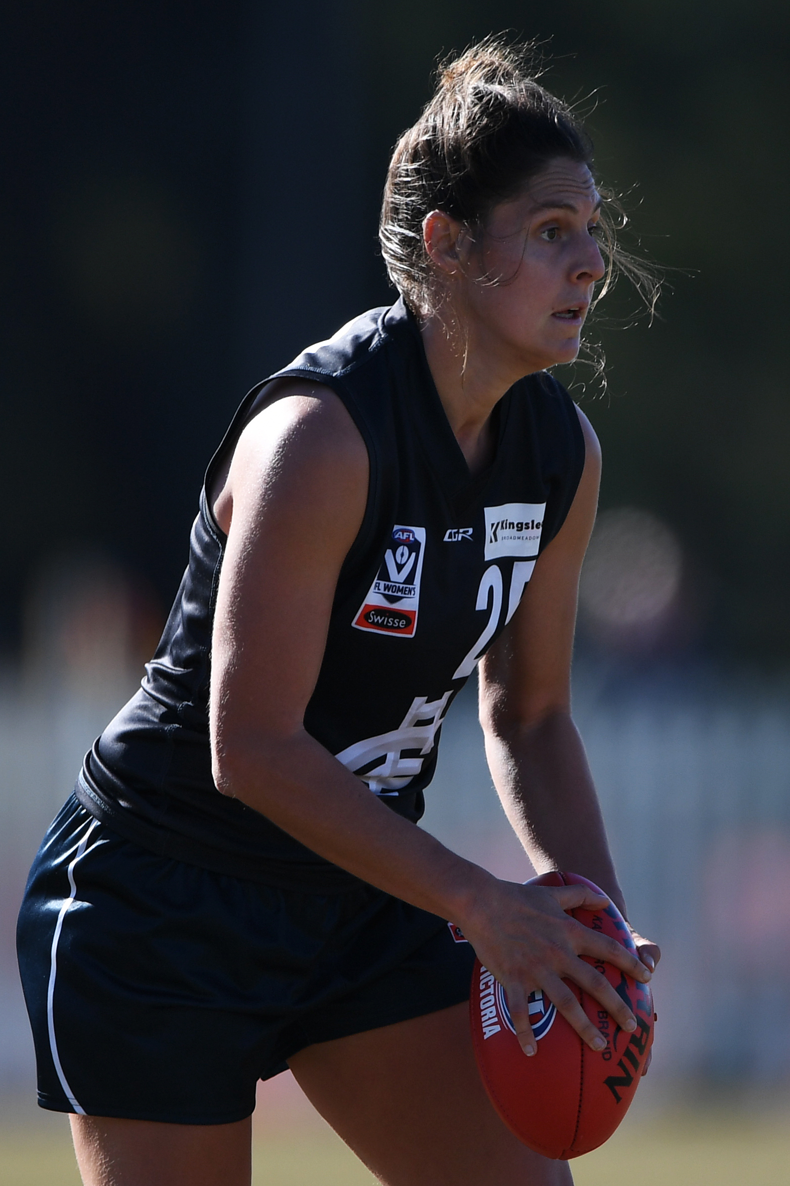 Jess Edwards of Carlton during the 2019 VFLW round 5 match between Carlton and NT Thunder at La Trobe University on Saturday, 8 June 2019 in Melbourne, Victoria.